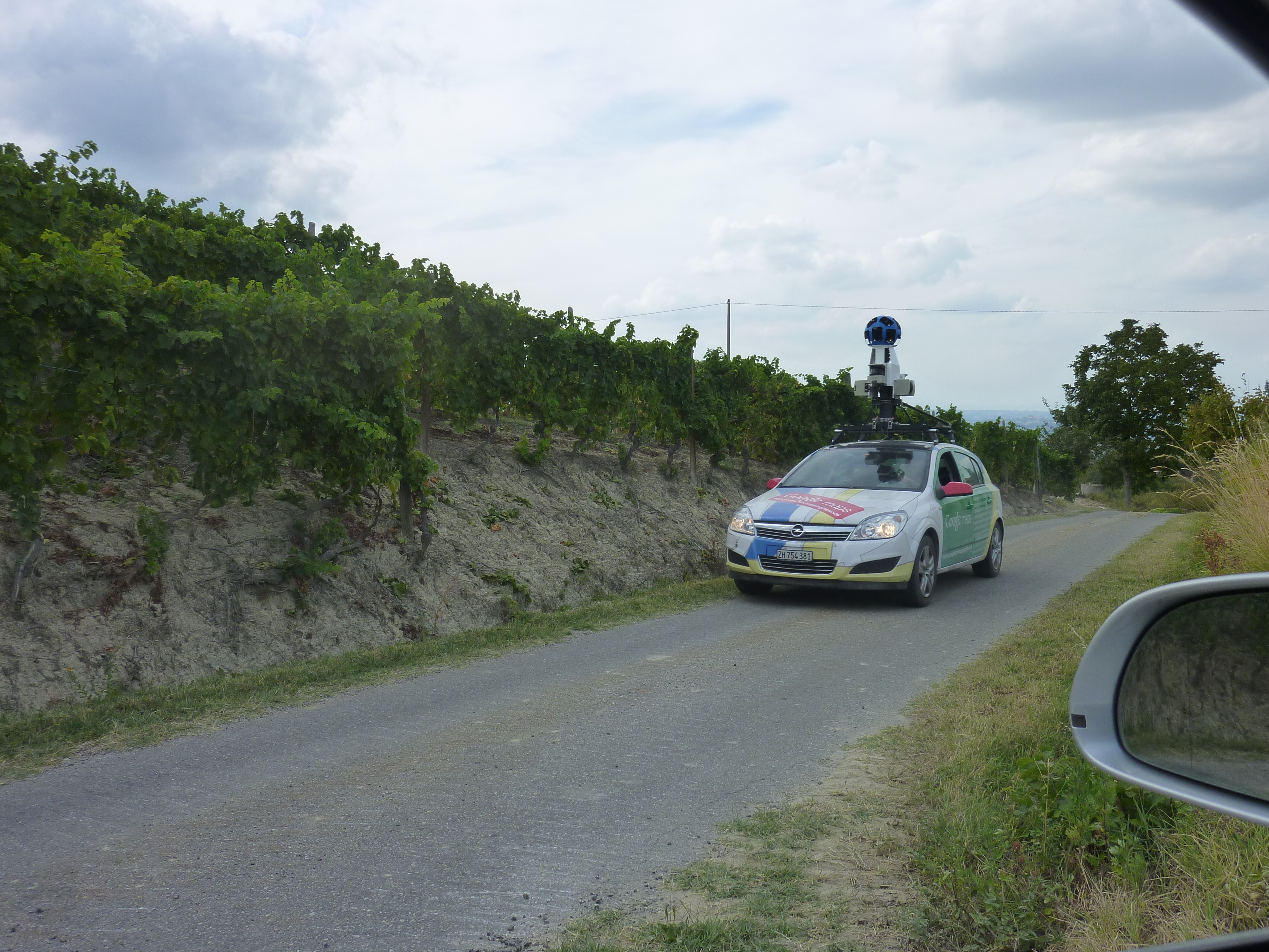 While driving on a narrow road among wine fields in Langhe, Italy my wife and I are suddenly approached by what turns out to be a Google Maps Camera Car driving at very high speed. My wife pulls over while I get the camera and take a snapshot through the already open window. The car has a Zurich license plate.[1]